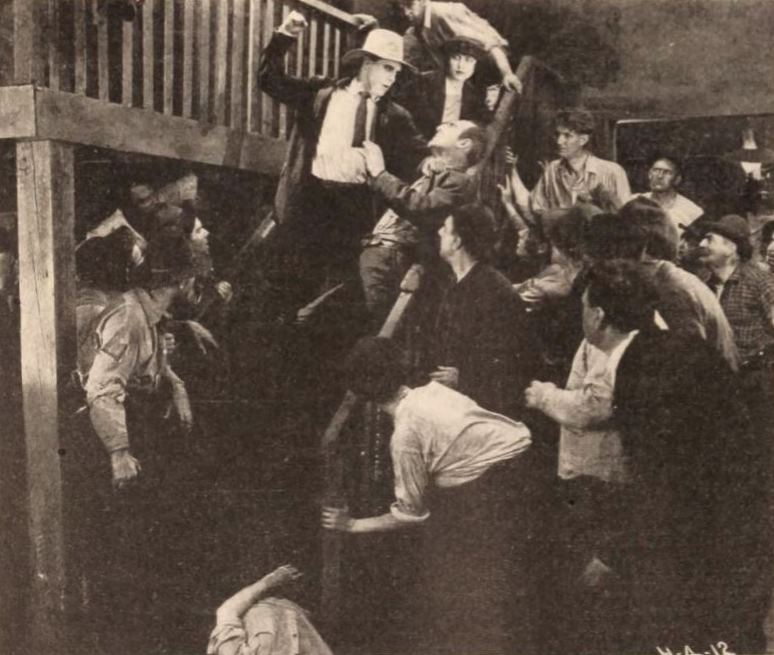 Still from the American drama film Dynamite Allen (1921) with George Walsh, on page 72 of the March 19, 1921 Exhibitors Herald.